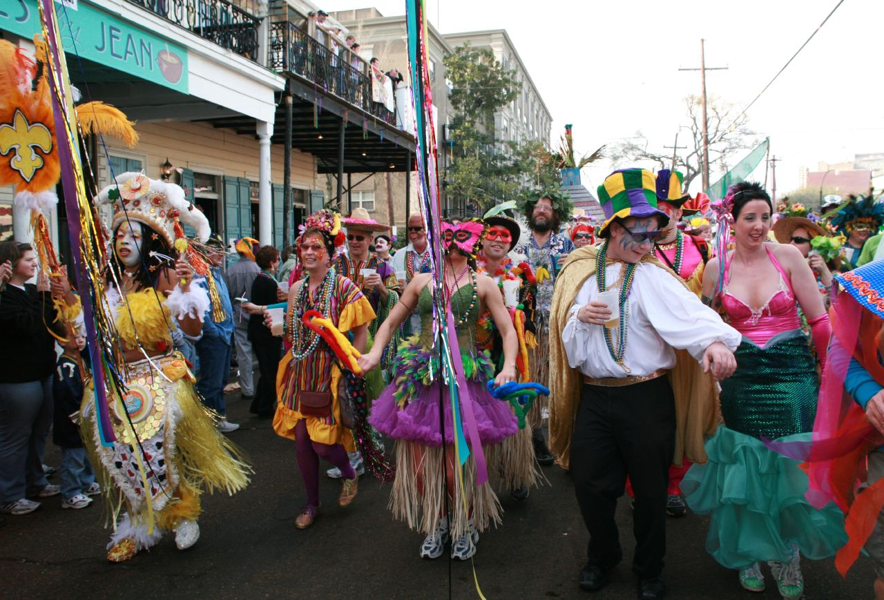 New Orleans Mardi Gras 2007: Mondo Kayo revelers parade on St. Charles Avenue.